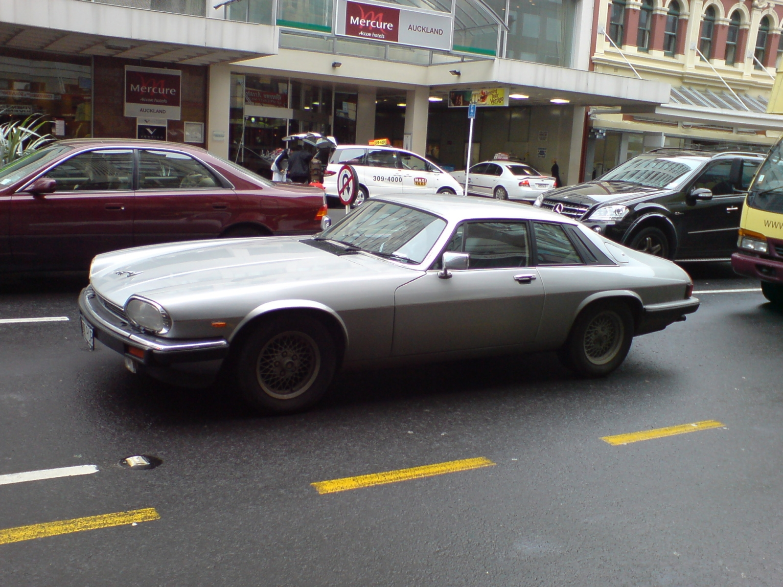 A Jaguar on Customs Street in the Auckland CBD, New Zealand.